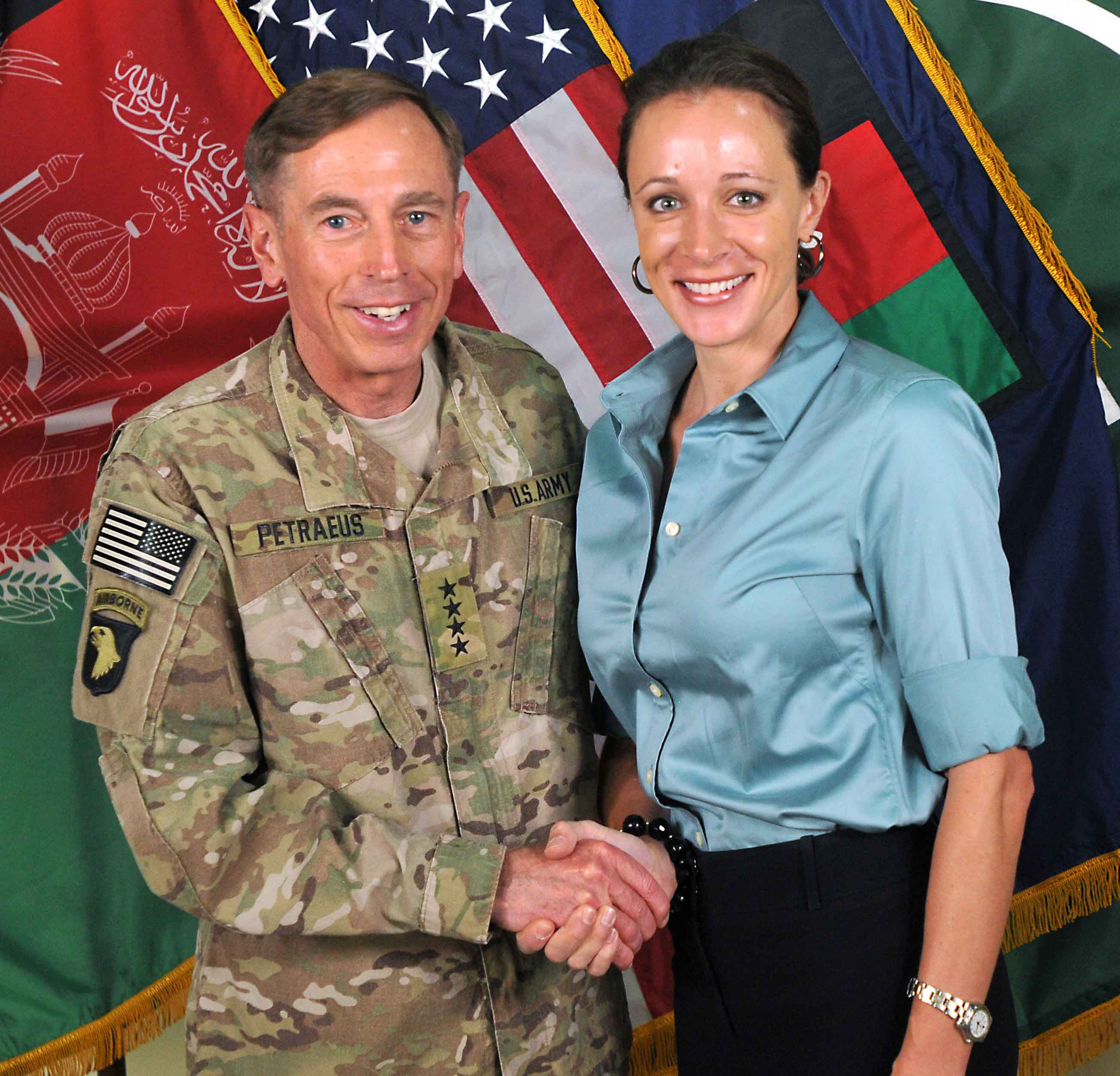 General David Petraeus, Commander of U.S. and ISAF forces in Afghanistan, with author Paula Broadwell